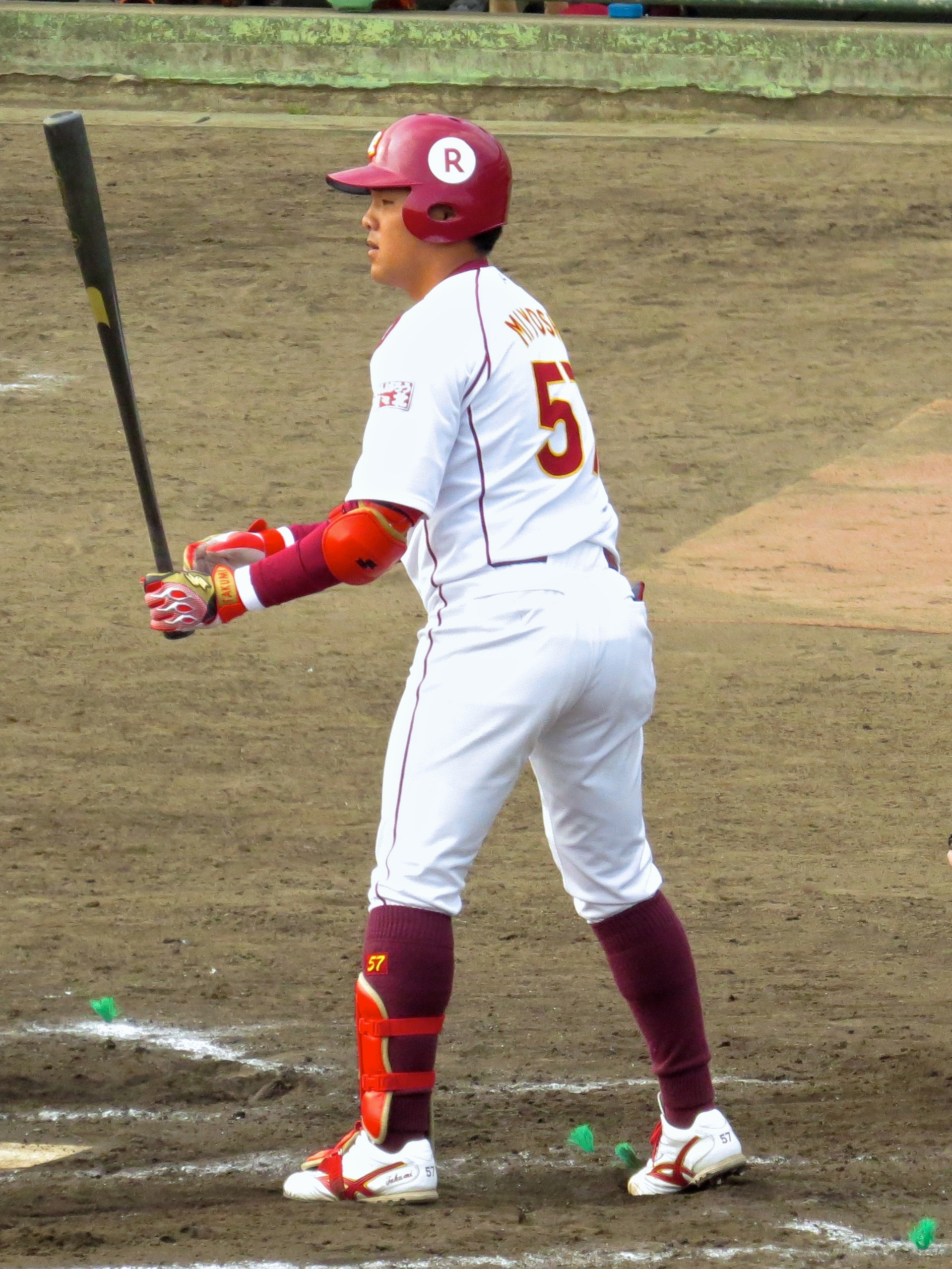 Takumi Miyoshi, infielder of the Tohoku Rakuten Golden Eagles, at Saitama Municipal Urawa Baseball Stadium